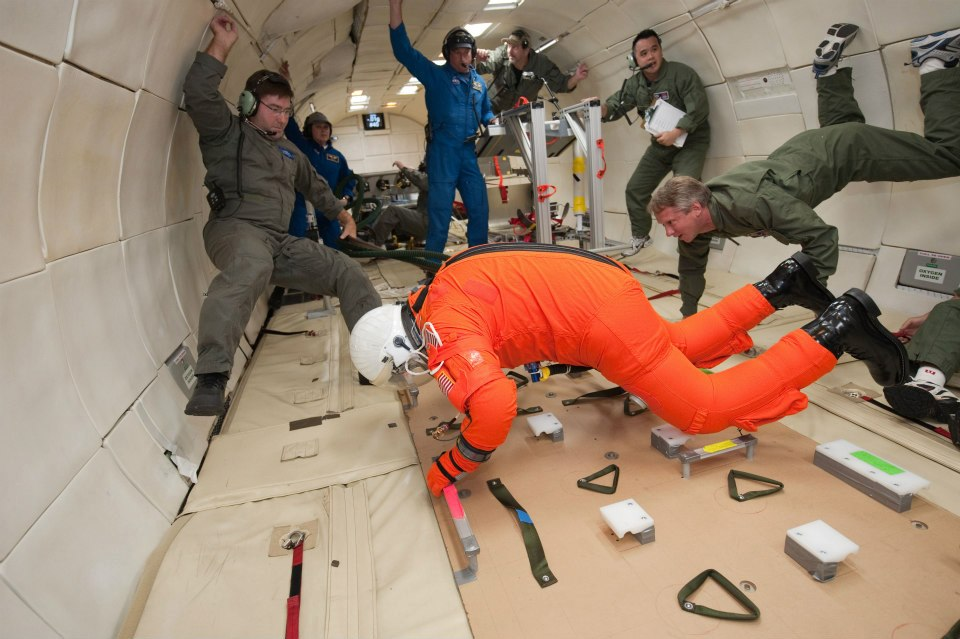 Test subjects were also asked to rate their ability to translate from one place to another using different handrail options.